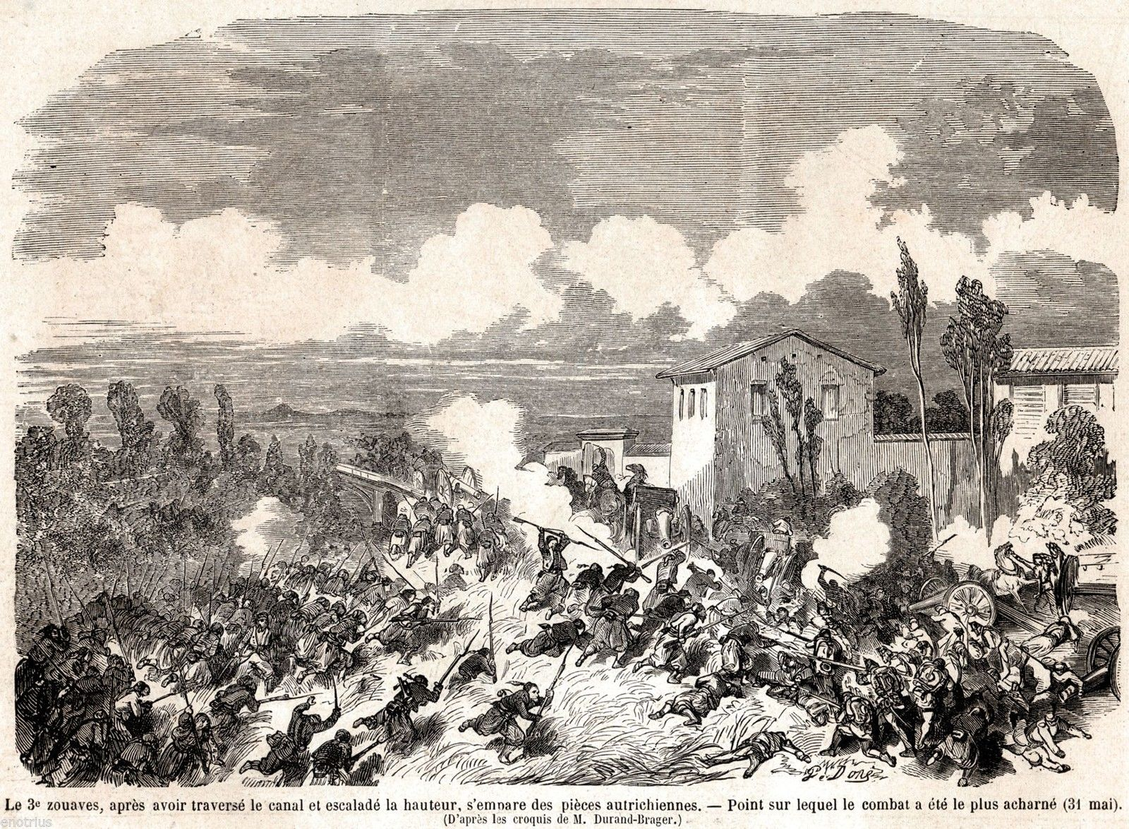 A drawing of the battle of Palestro (Italy) 1859-05-31